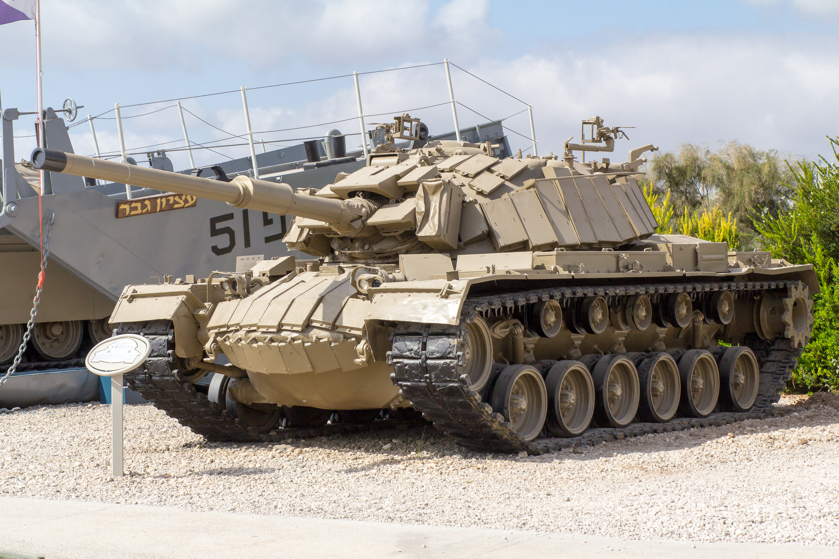 M48 Patton Magach 3 at the Yad LaShiryon museum in Latrun, Israel. This tank is a veteran of the 1982 Battle of Sultan Yacoub. It was captured by the Syrians, transferred to the USSR and was on display at the Kubinka Tank Museum. It was returned to Israel in 2016.